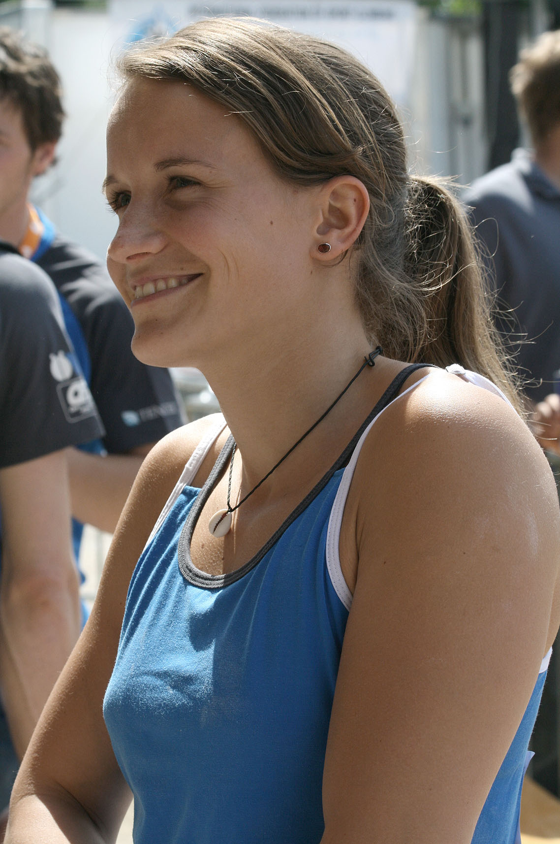 Anna Stöhr during the semi-finals at the IFSC Boulder Worldcup Vienna 2010.